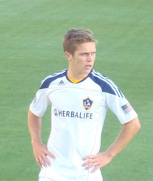 this picture of Michael Stephens was taken by me on the la galaxy game vs boca jrs